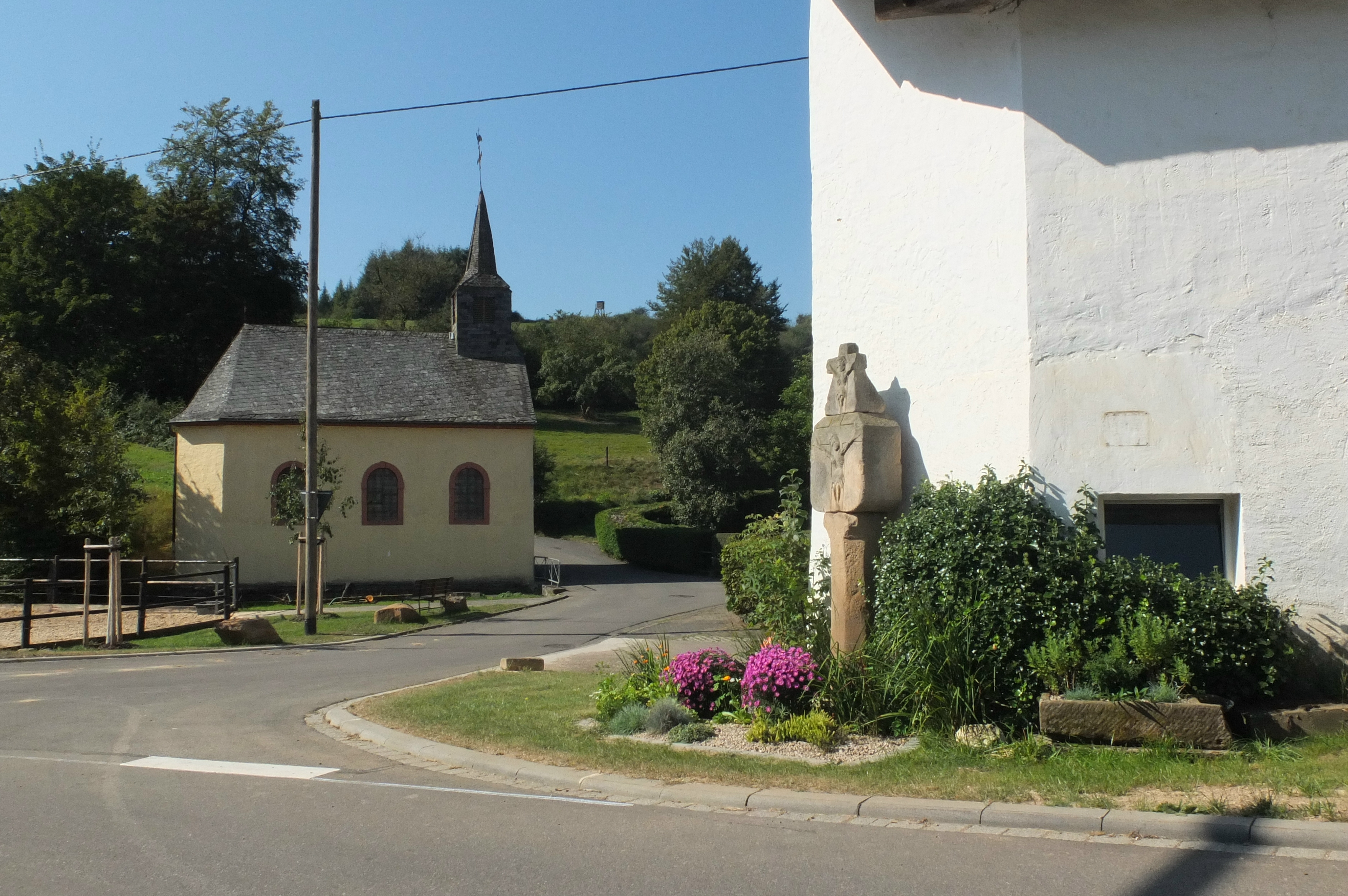 Wayside cross (17. Jh.) in Herbstmühle, Eifelkreis Bitburg-Prüm, Germany, in the backgroud Antonius Chapel (1821). This is a photograph of an architectural monument.It is on the list of cultural monuments of Herbstmühle